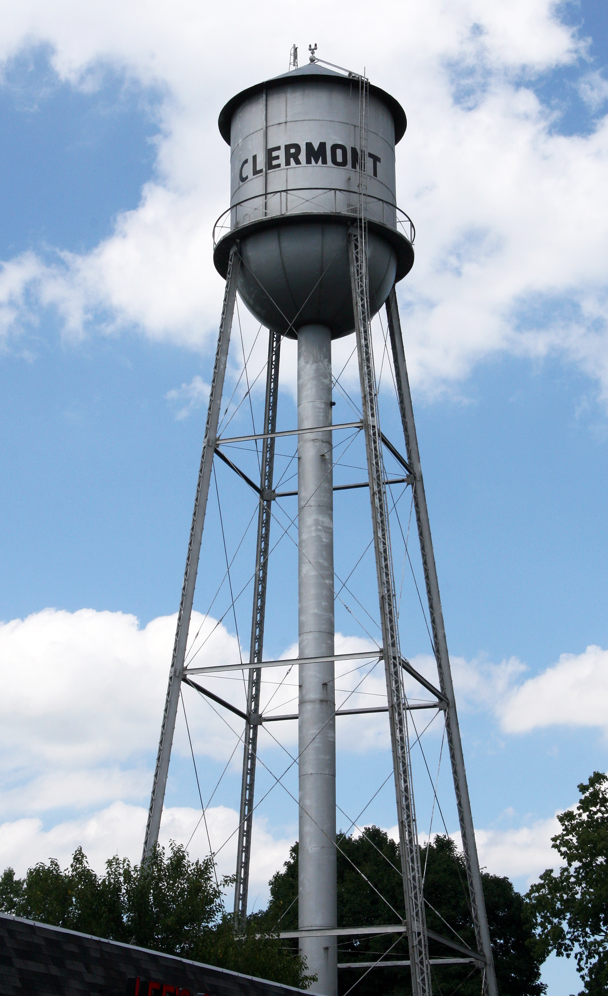 The water tower in Clermont, a town in western Marion County, Indiana.